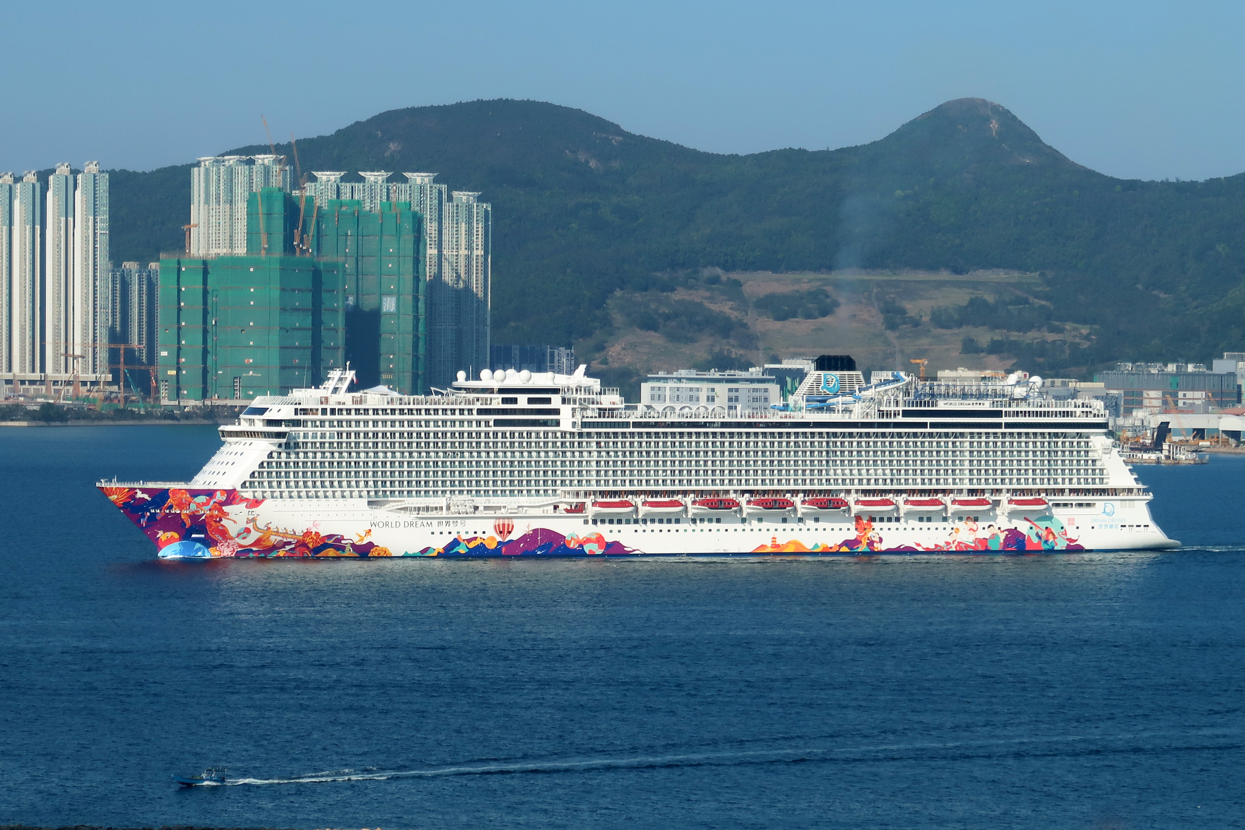 Dream Cruises World Dream